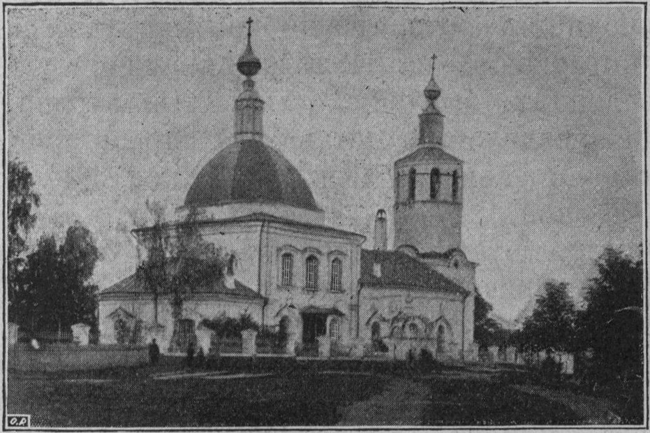 Church of All Saints at Vsekhsvyatskoye